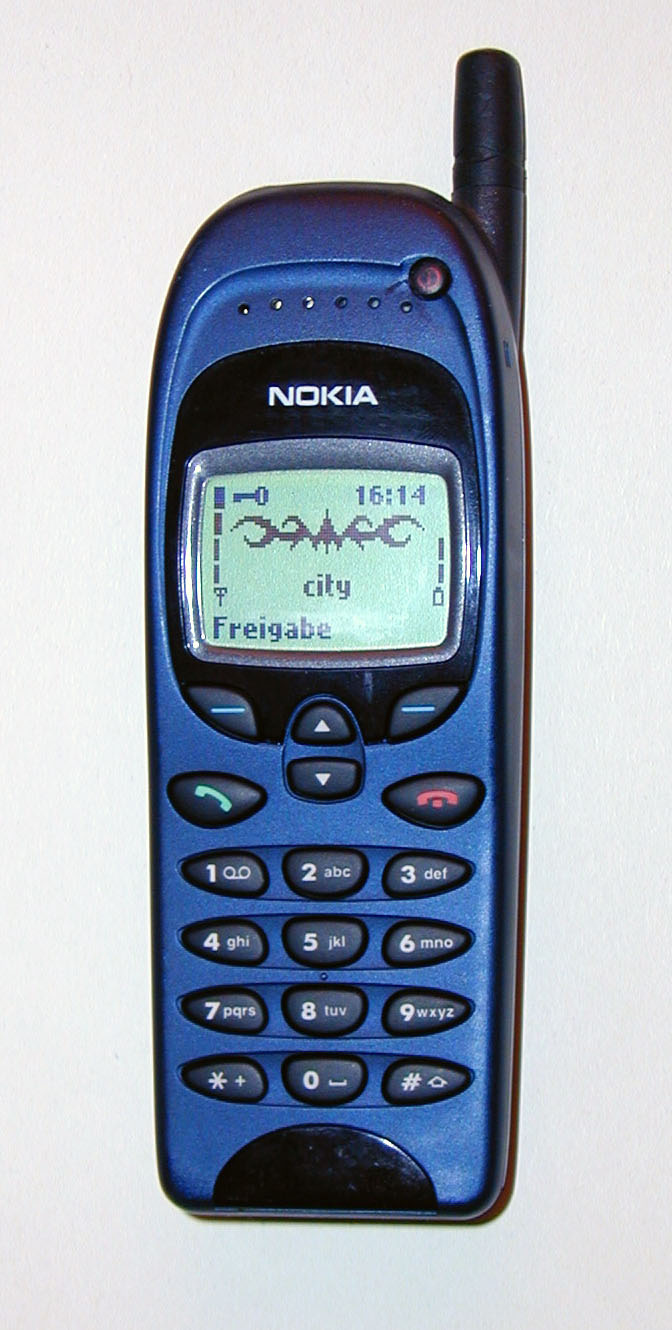 Nokia 6150 Source: own work Author: Maschinenjunge Licence: GFDL, cc-by 3.0